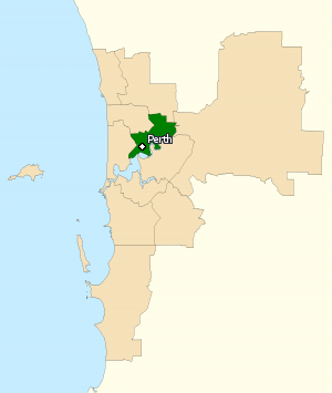 Incorporates or developed using Administrative Boundaries ©PSMA Australia Limited licensed by the Commonwealth of Australia under Creative Commons Attribution 4.0 International licence (CC BY 4.0). Derived from State and Territory Boundaries from the Australian Bureau of Statistics under Creative Commons Attribution 2.5 Australia license (CC BY 2.5 AU)